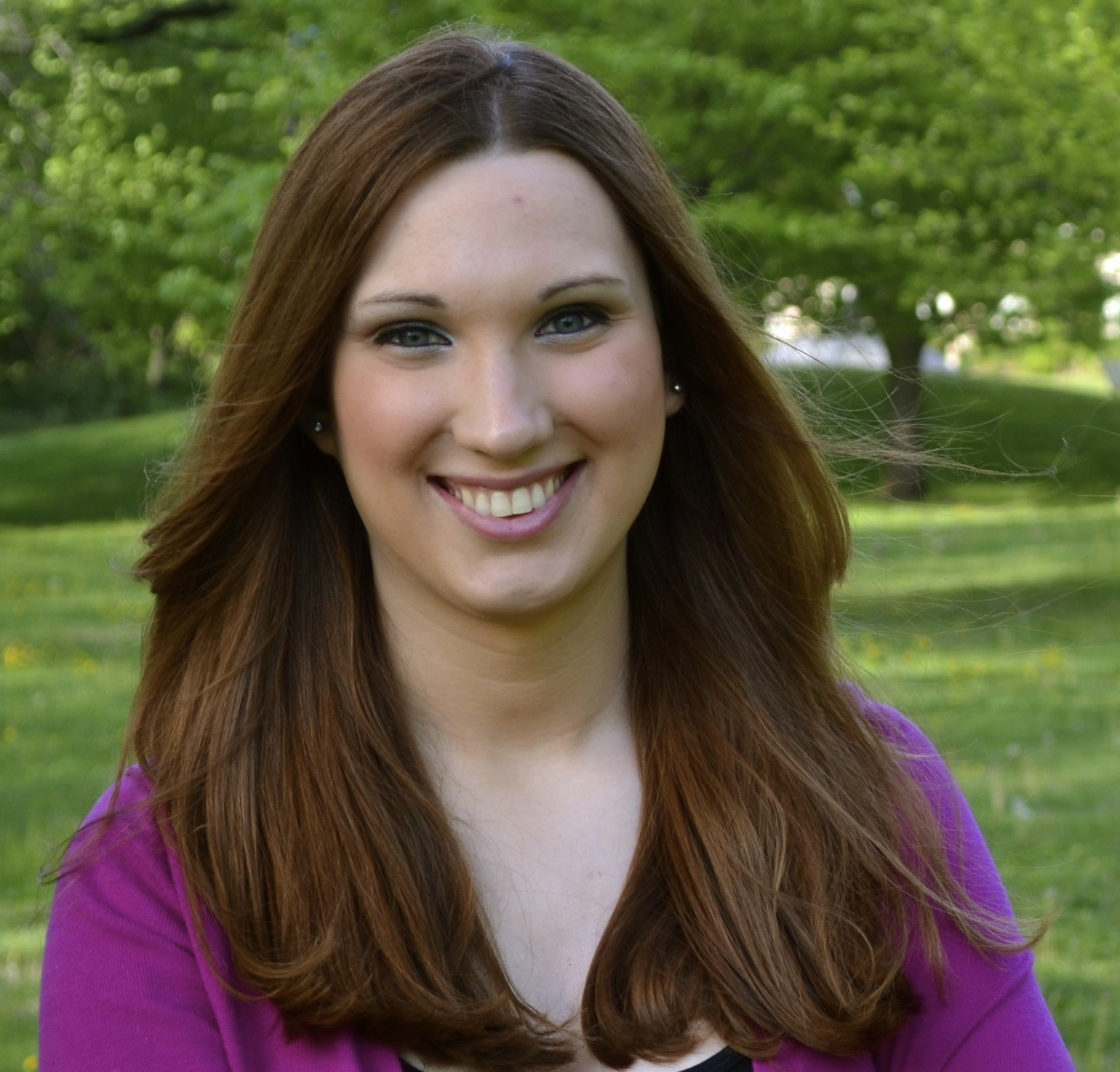 Human Rights Campaign press secretary Sarah McBride, posed outdoors.